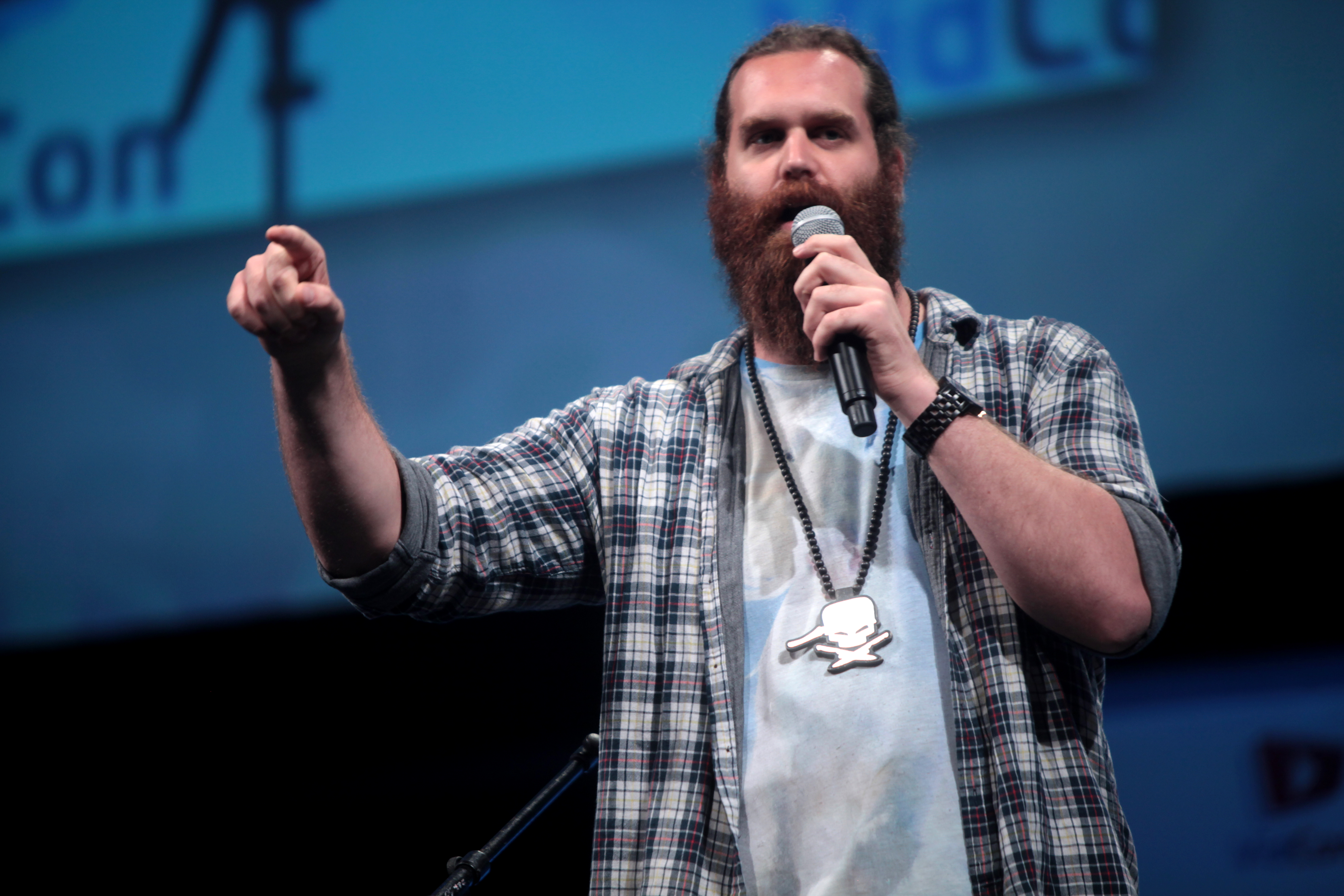 Harley Morenstein speaking at the 2014 VidCon on June 28, 2014.